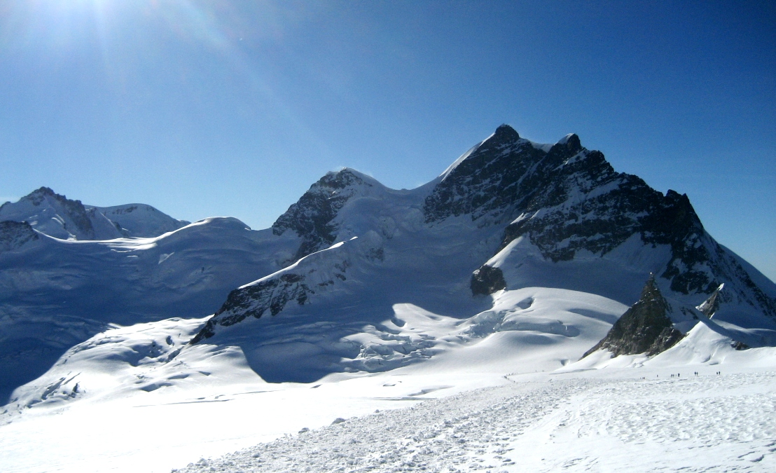 Trail from Jungfraujoch to Mönchjoch on the upper Aletsch Glacier, Switzerland. The highest peak is the Jungfrau. The Jungfraujoch is not visible (right).